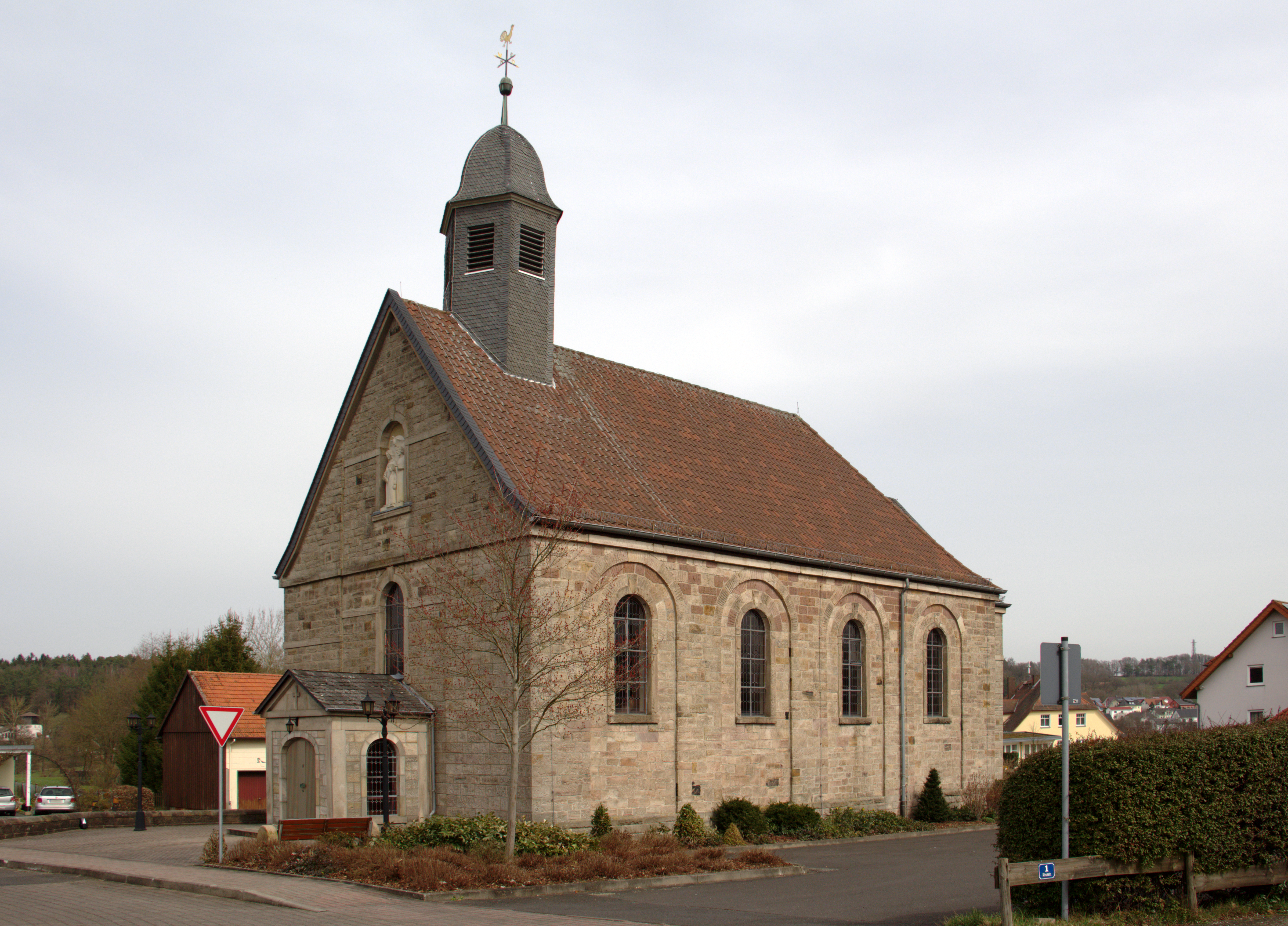 Catholic Church in Döngesmühle, Flieden, Hesse, Germany